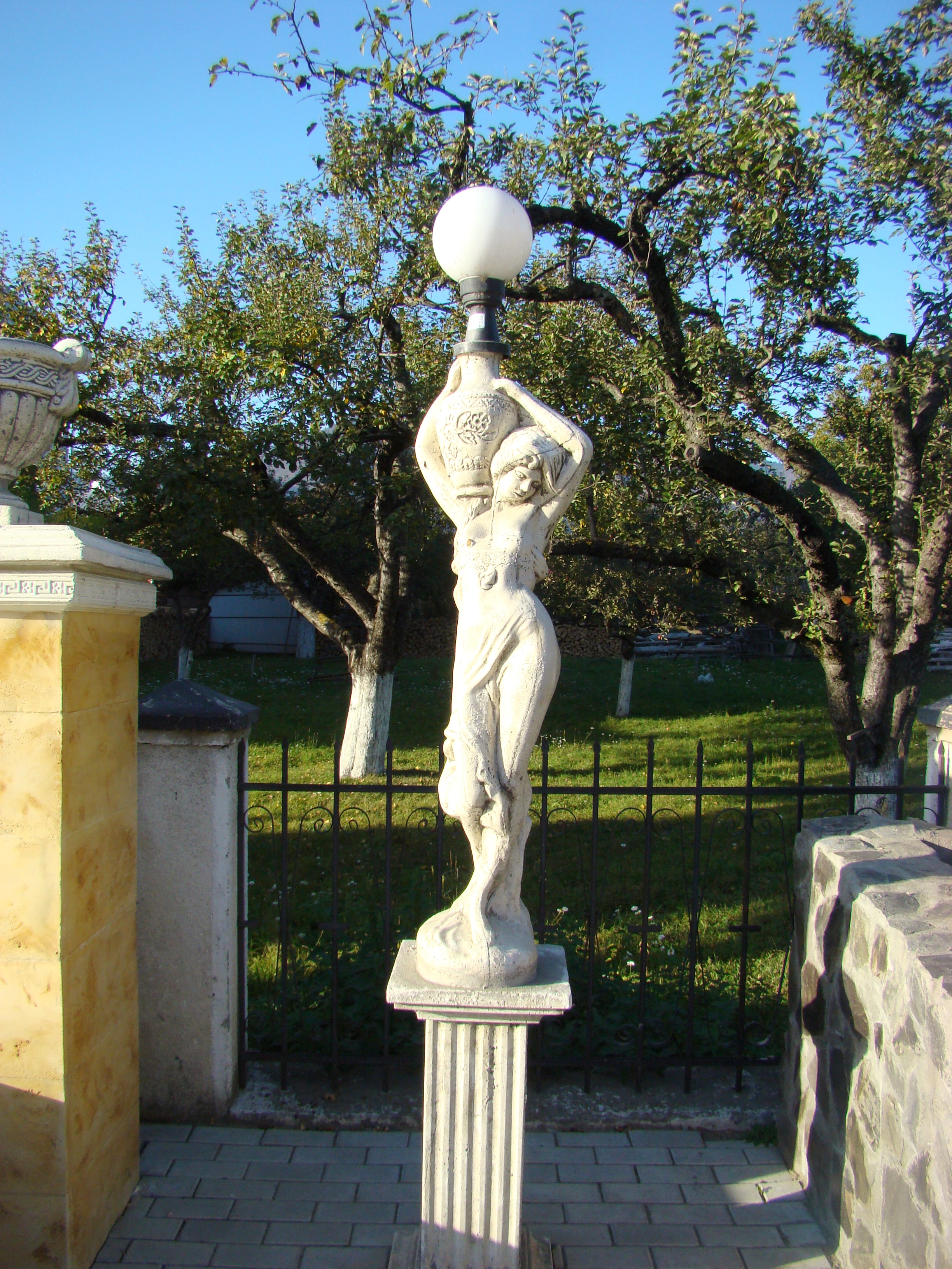 Prundu Bârgăului, Bistrița-Năsăud county, Romania